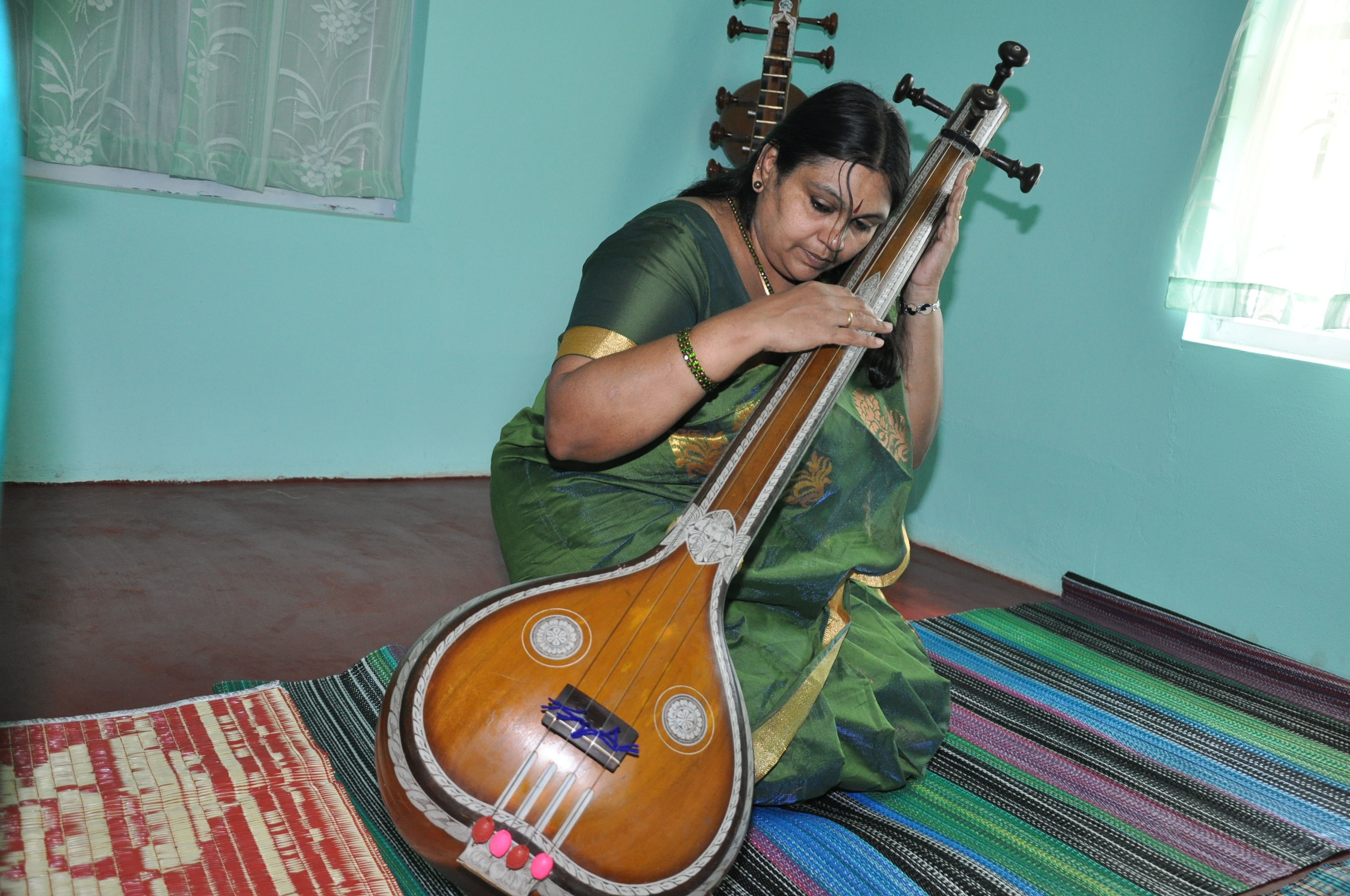 B Arundathy, film music singer ,Kerala